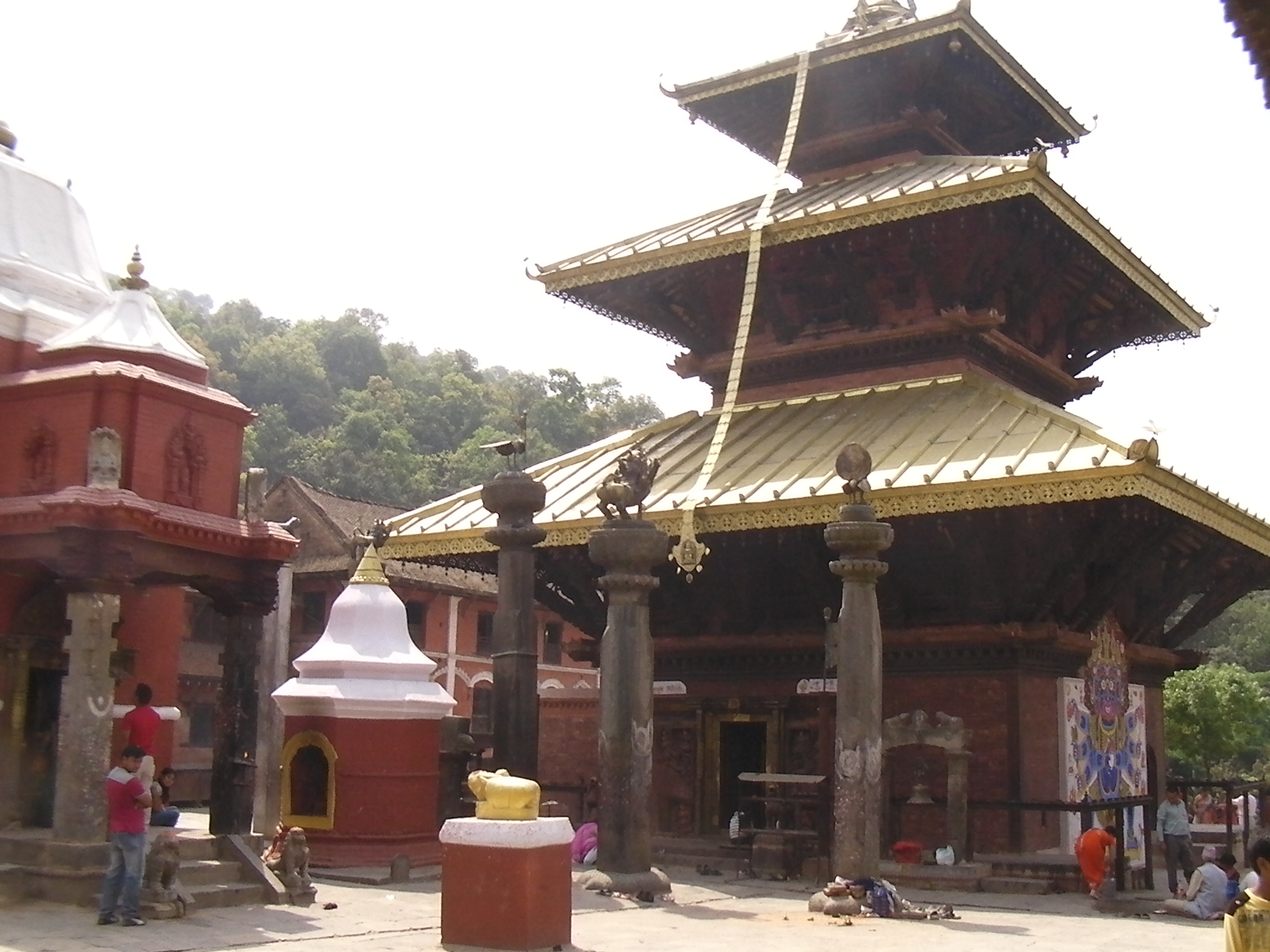 Chandeshwari Temple in Banepa, Nepal. Chandeshwari is the form taken by the Hindu goddess Parvati as slayer of the demon Chanda.